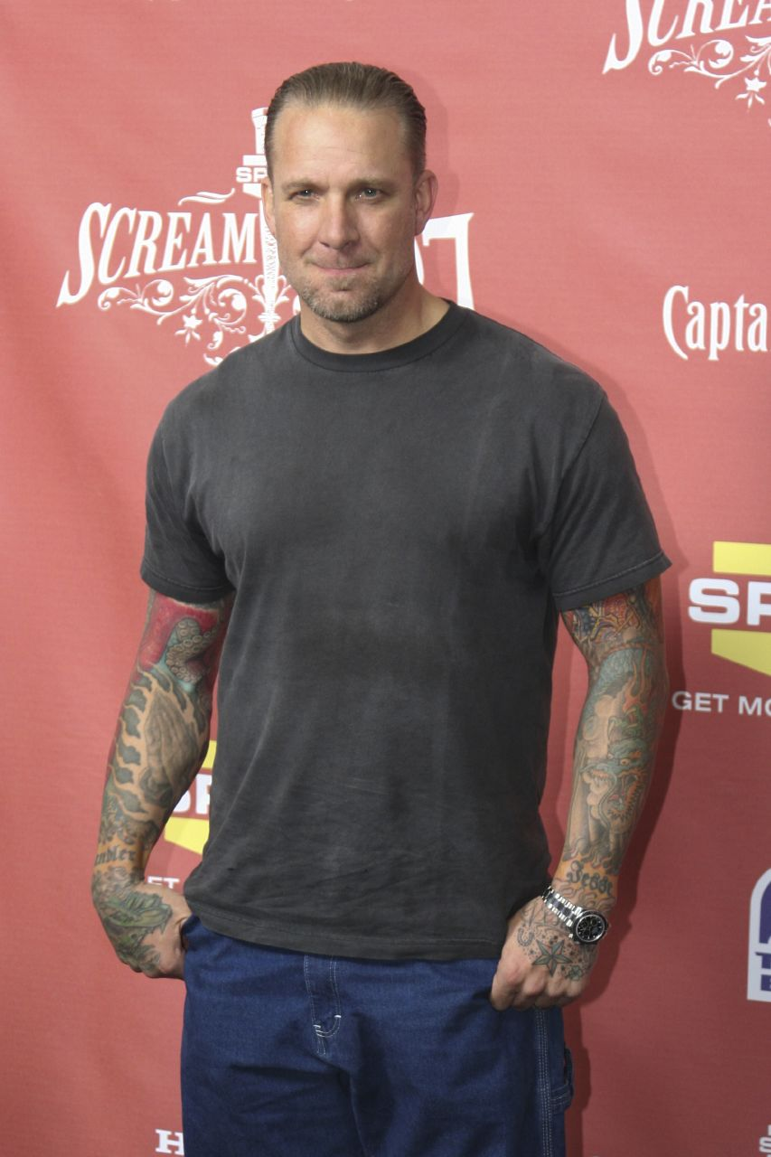 Jesse G. James, American motorcycle manufacturer. Taken at the 2007 Scream Awards.